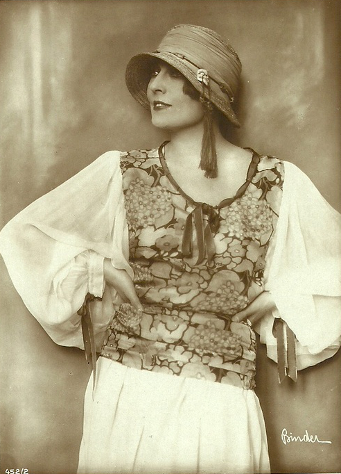 Postcard Portrait of German dancer and actress Grit Hegesa (1891–1972) by Alexander Binder.